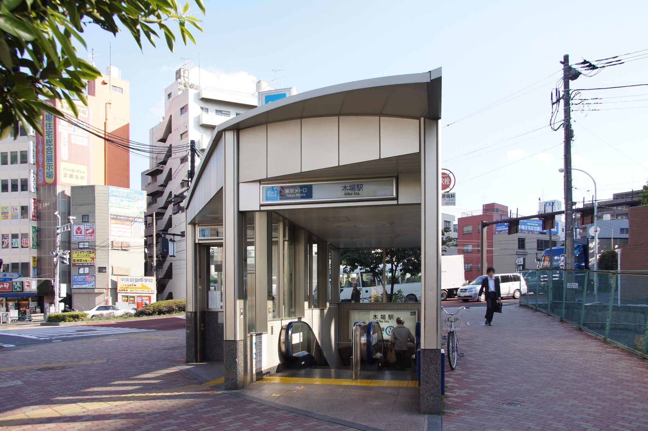 Exit 4b of Kiba Station on the Tokyo Metro Tozai Line in Koto, Tokyo